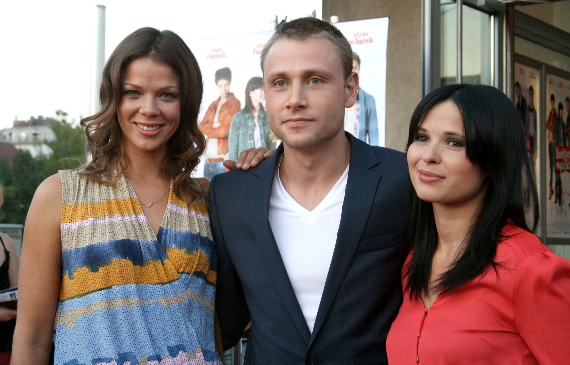 Anna Fischer, Jessica Schwarz and Max Riemelt at the Austrian premiere of Heiter bis wolkig at Urania cinema in Vienna, Austria.